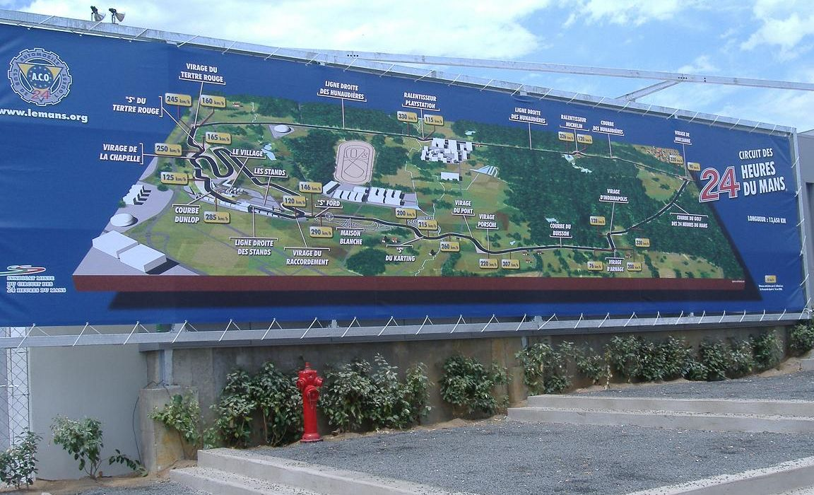 Taken by me in June 2006